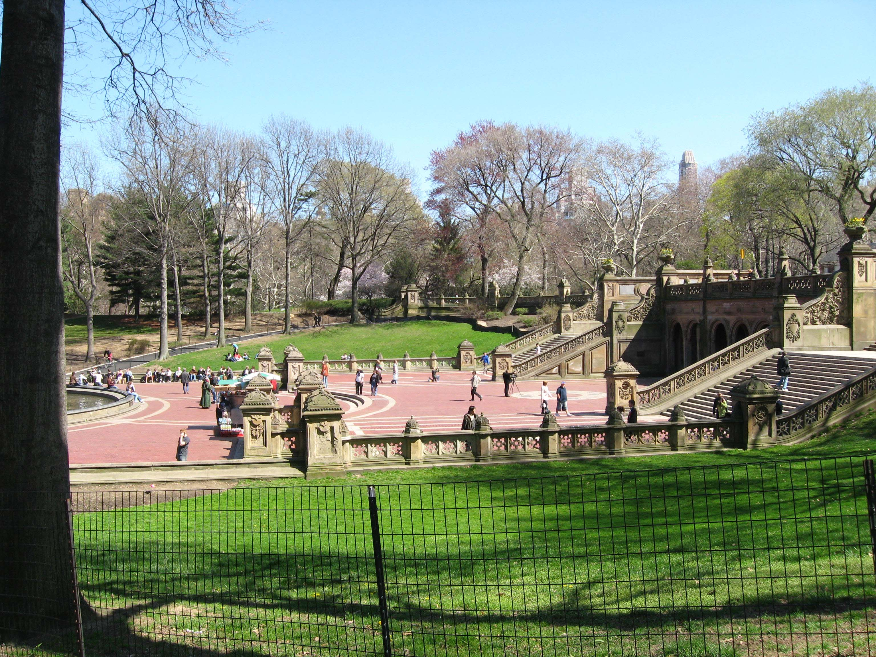 Looking east on a sunny noontime in springtime at the stairs of Bethesda Terrace. Much brighter than Image:Bethesdaterr.JPG my winter one.